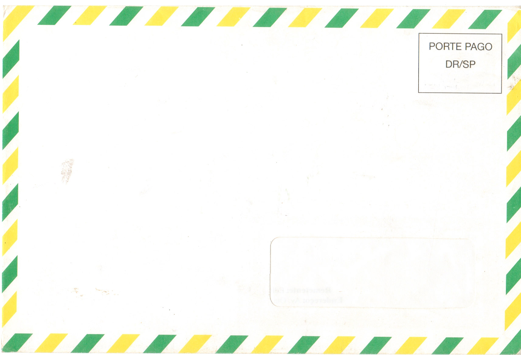 Traditional Brazilian envelope with borders decorated with the colors of the country.